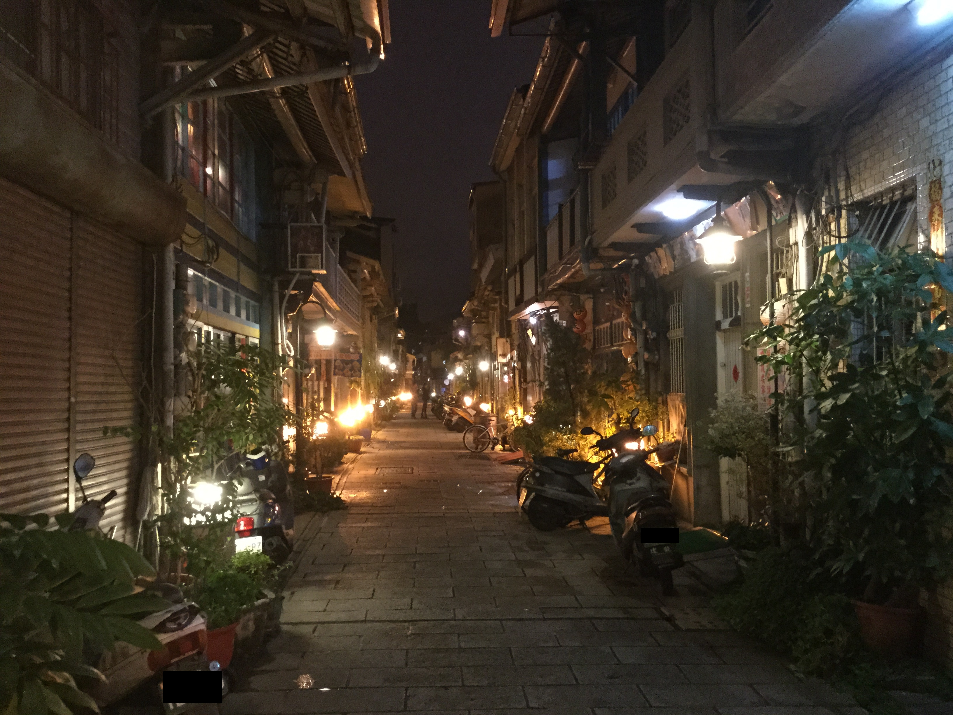 Night Scene in Shennong Street, Tainan City, Taiwan